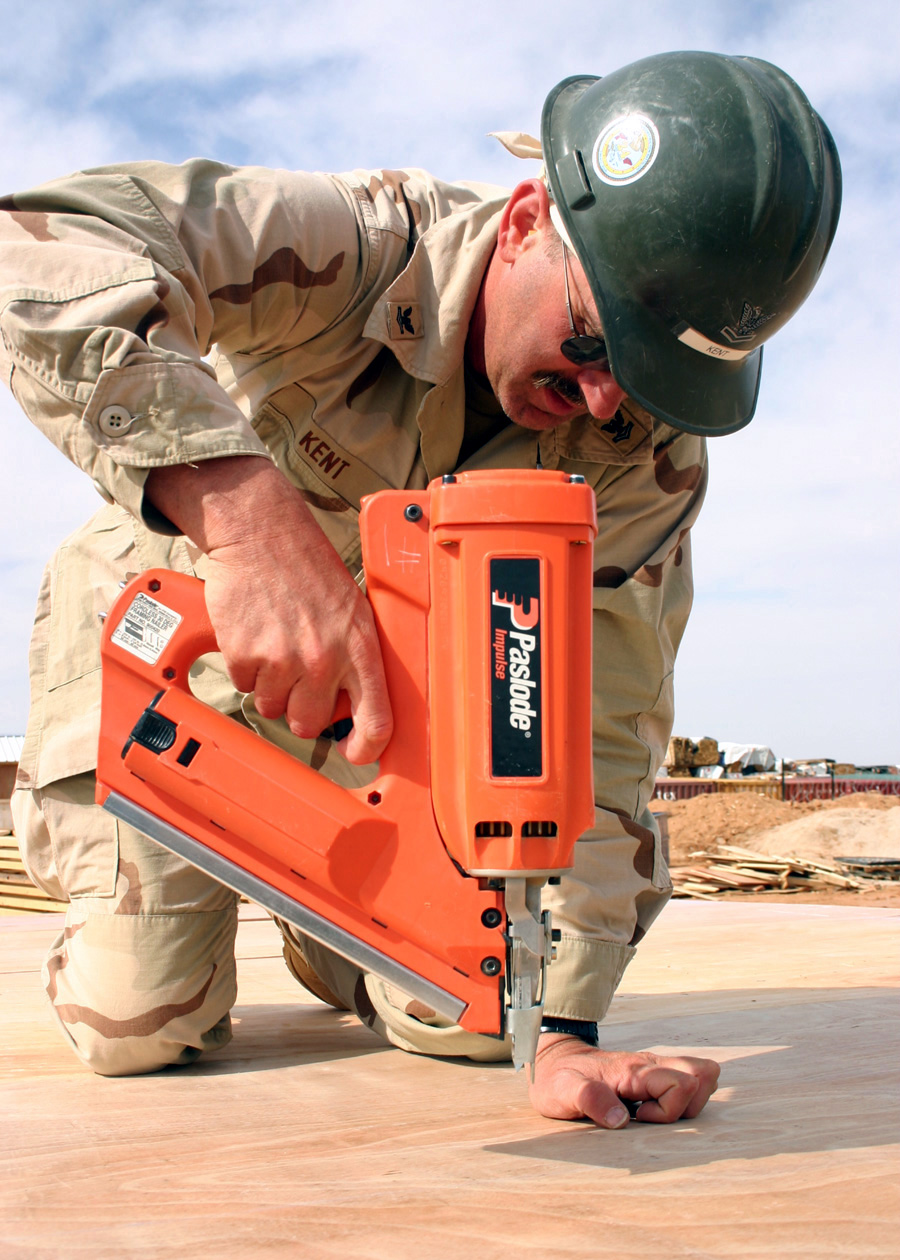 Al Anbar, Iraq (Apr. 25, 2005) – Utilitesman 2nd Class John Kent, assigned to Naval Mobile Construction Battalion Two Four (NMCB-24), uses a nail gun as he helps to in build Southwest Asia huts at Camp Korean Village, in western Iraq. NMCB-24 is performing construction, base maintenance, and convoy security in support of Operation Iraqi Freedom. U.S. Navy photo by Lt. j.g. Jeromy L. Pittmann (RELEASED)